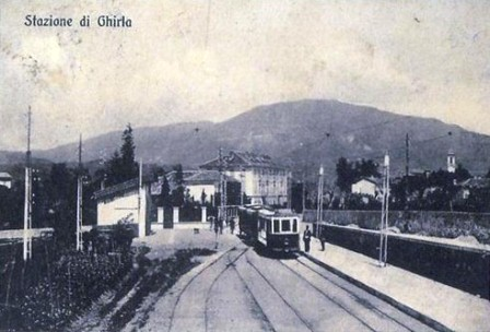 Ghirla railway station 1